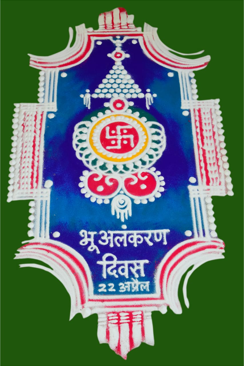 Sanskar Bharti Rangoli is designed and drawn by artist of Sansakr Bharti. It was drawn on the occassion of World Earth Day which is celebrated as Bhu-Alankaran Diwas or Rangoli Day